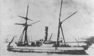 Chinese Rendel gunboat Feiting